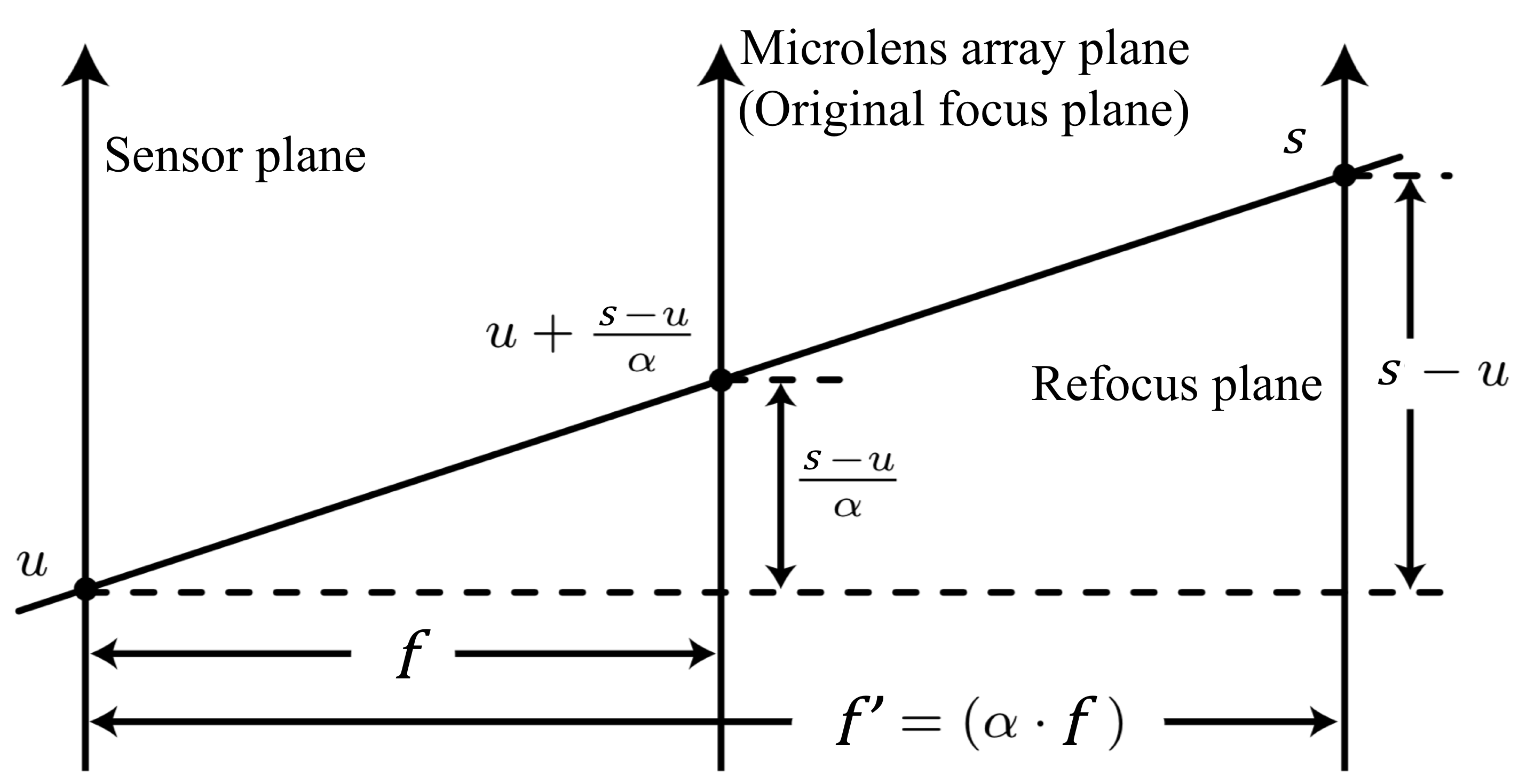 This figure is modified from Ren Ng (2005) Fourier Slice Photography.